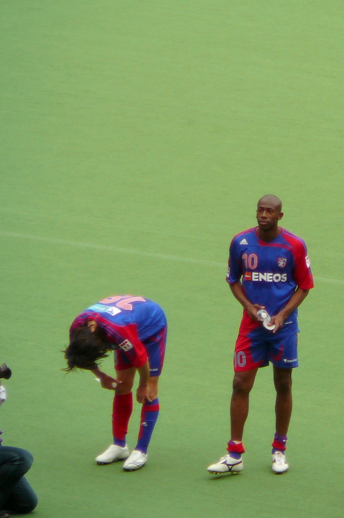 Paulo Wanchope from FC Tokyo